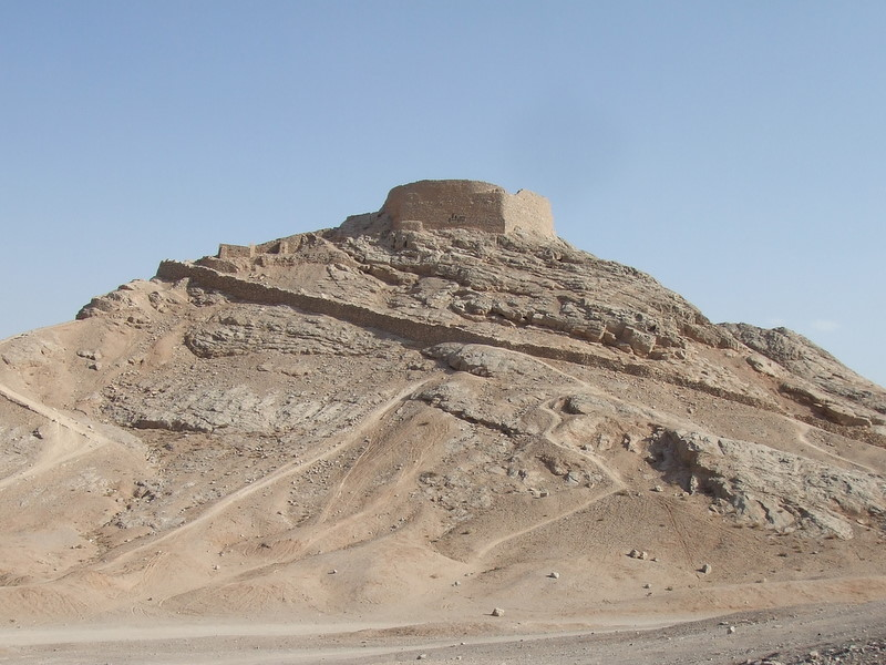 Zoroastrian Towers of Silence outside Yazd, Yazd province, Iran